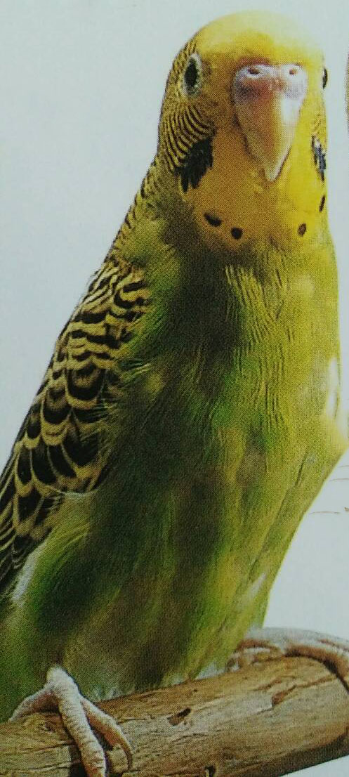 normal